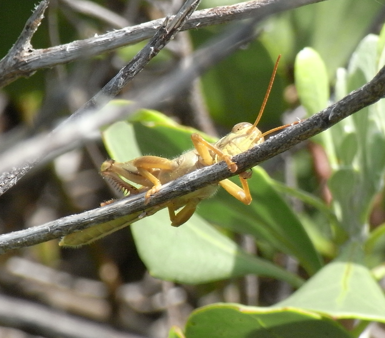 Giant grasshopper (Valanga irregularis) at Treachery Head, Myall Lakes National Park, Australia.